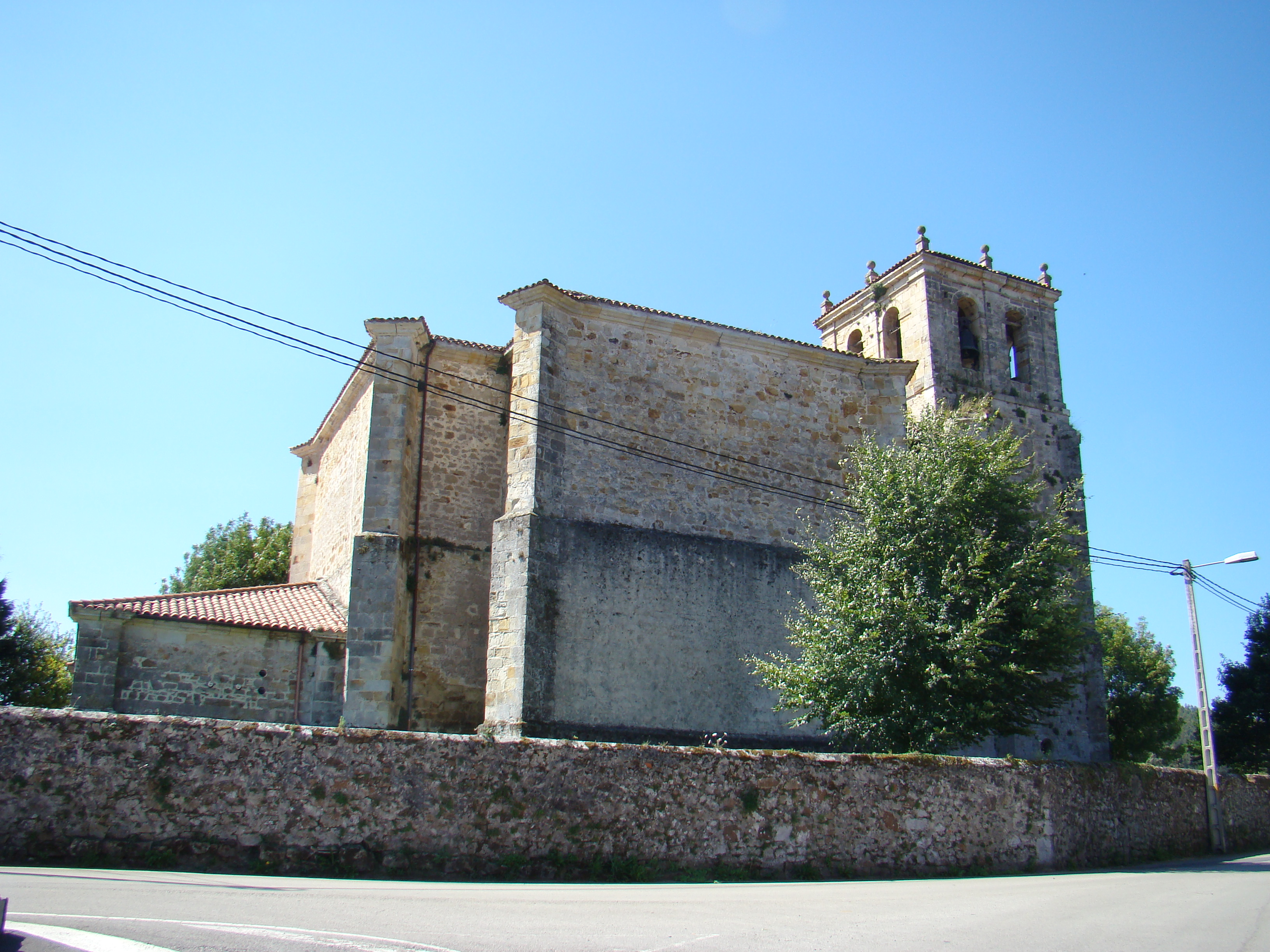 Church of San pelayo, in Cicero (Bárcena de Cicero), in Cantabria, Spain.